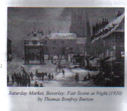 Beverley Fair in 1920. Beverley, East Riding of Yorkshire, England.